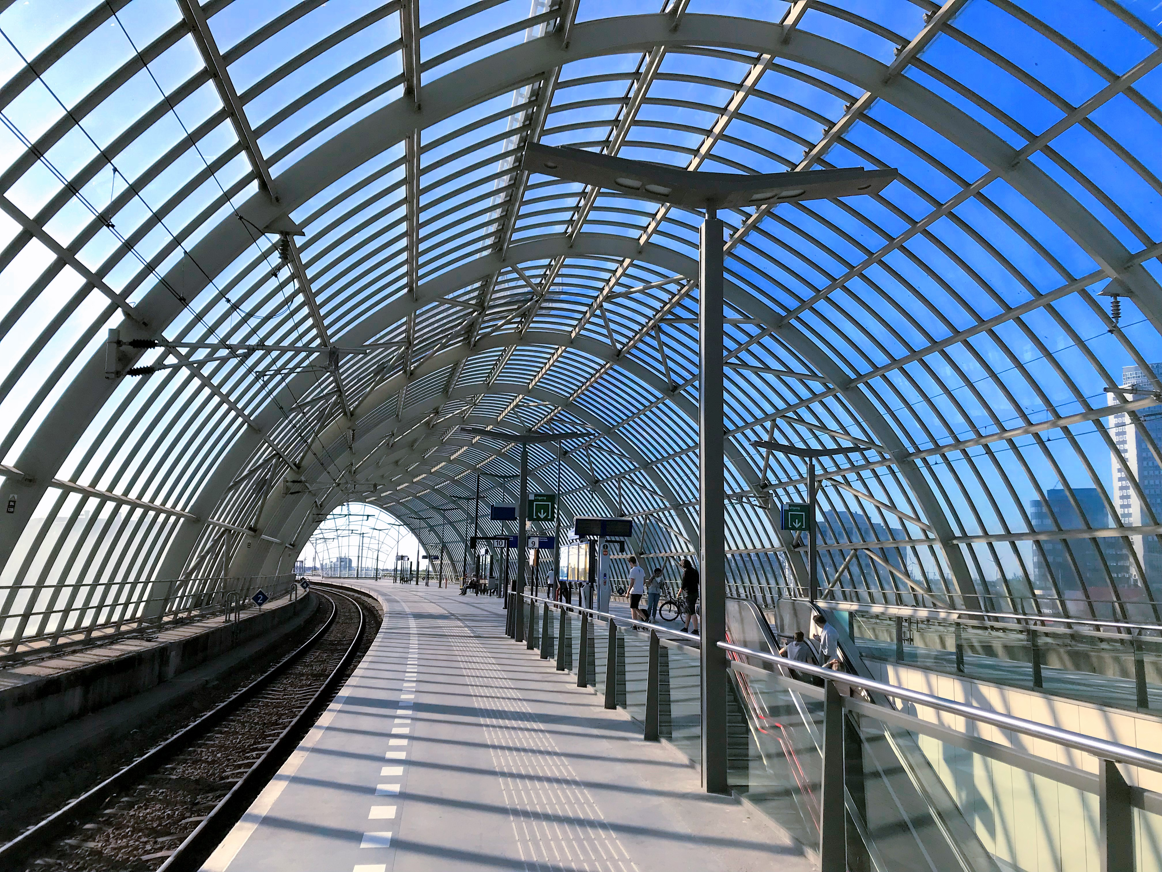 Amsterdam Sloterdijk train station